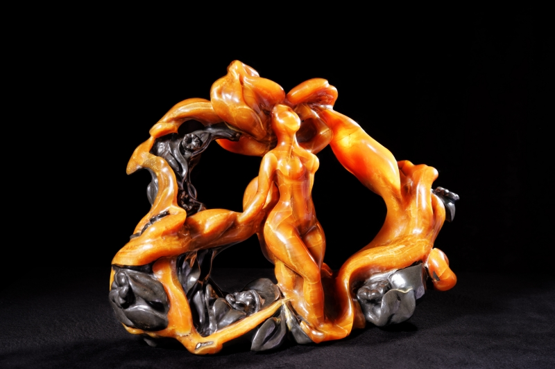 Изделие из симбирцита. Резьба по камню.Авторская работа.